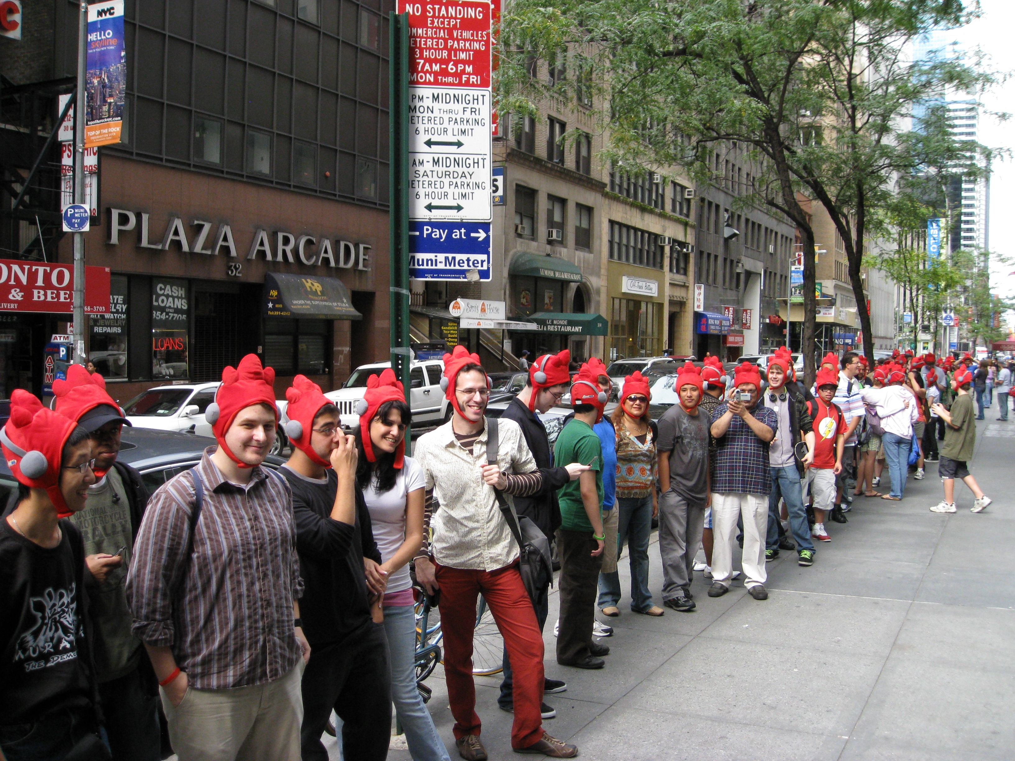 Players wait in line for the start of the Scribblenauts launch event on Sept 13 2009 at the Nintendo World Store in New York City. Each is wearing the pre-release bonus "Rooster hat" (as the character Maxwell does in the game)